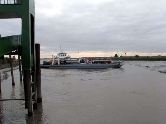 Ferry F/S Wilhelm Krooss departing the ferry-terminal of Wischhafen